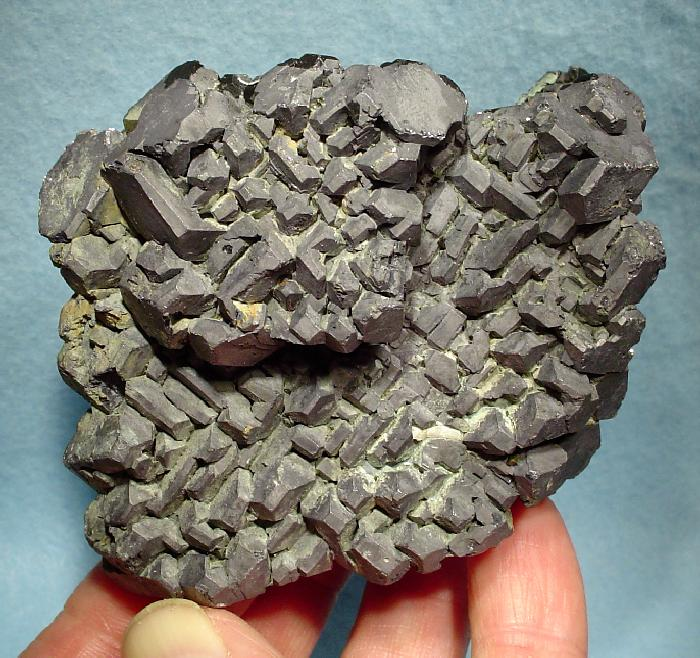 Galena Locality: Chink Enders Mine, Tri-State District, Ottawa County, Oklahoma, USA (Locality at ) Size: 9.8 x 7.0 x 4.8 cm. A superb, old-time example of the "fortification style" or galena epitaxial on galena from the famed Tri-State District. The battleship-gray, second-generation galena crystals preferentially encrust the large galena cube and give this totally incredible, herringbone pattern. Classic material from the George Feist Collection and from the much less well-known Chink Enders Mine, Picher, Oklahoma. A note on the former dealer label accompanying this specimen indicates that this piece came from an old Cornwall, England collection.